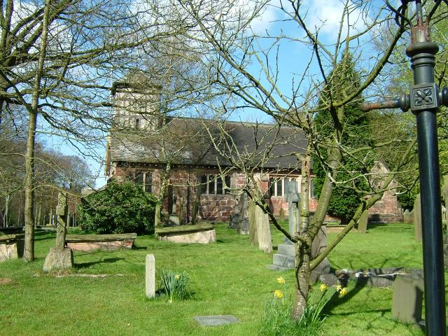 Parish church of St Mary and All Saints, Whitmore, Staffordshire, seen from the south